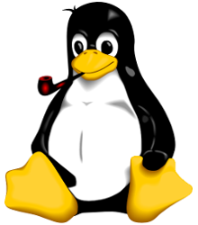 This is the Slackware mascot. Tux, the Linux mascot, with a small hair tuft and smoking a pipe.